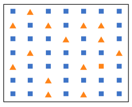 Where is a yellow square?